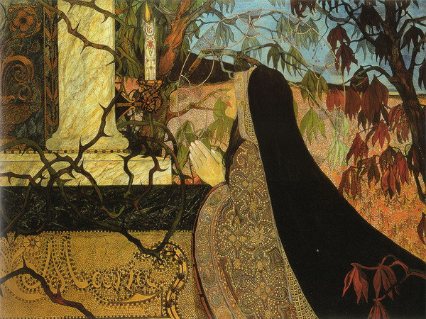 Carl Strathmann: Maria